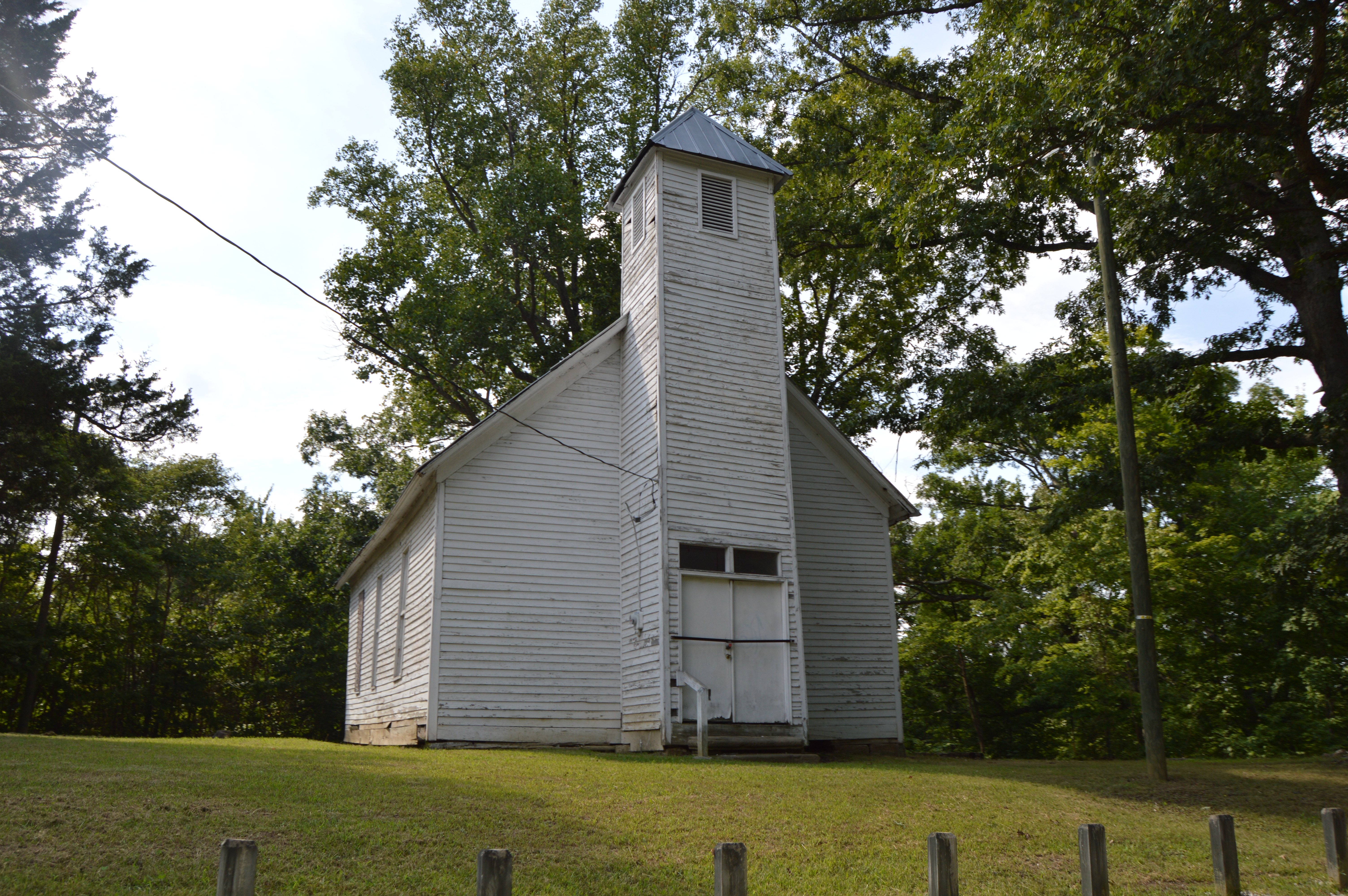 Front and southern side of the former Macedonia Church, located at the junction of Roads 120 and 144 north of Burlington in Fayette Township, Lawrence County, Ohio, United States. Built in 1849, it is listed on the National Register of Historic Places.